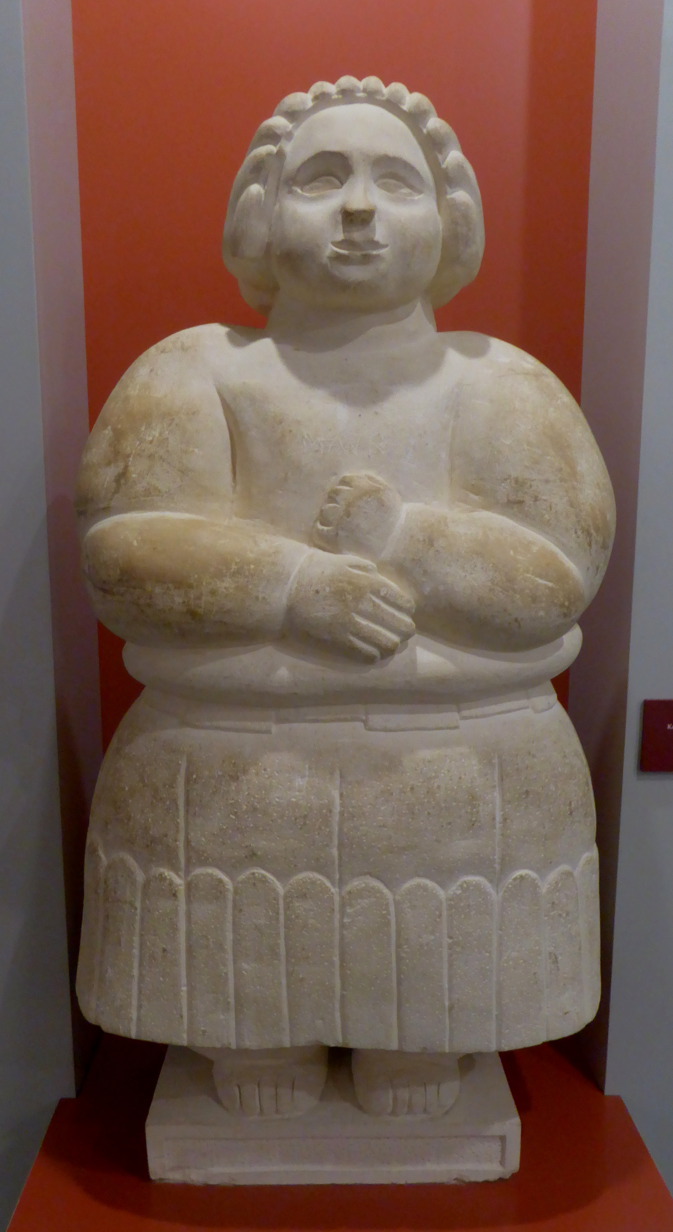 Replica of the broken figurine found at Ġgantija. On display at the Ġgantija visitor's centre.